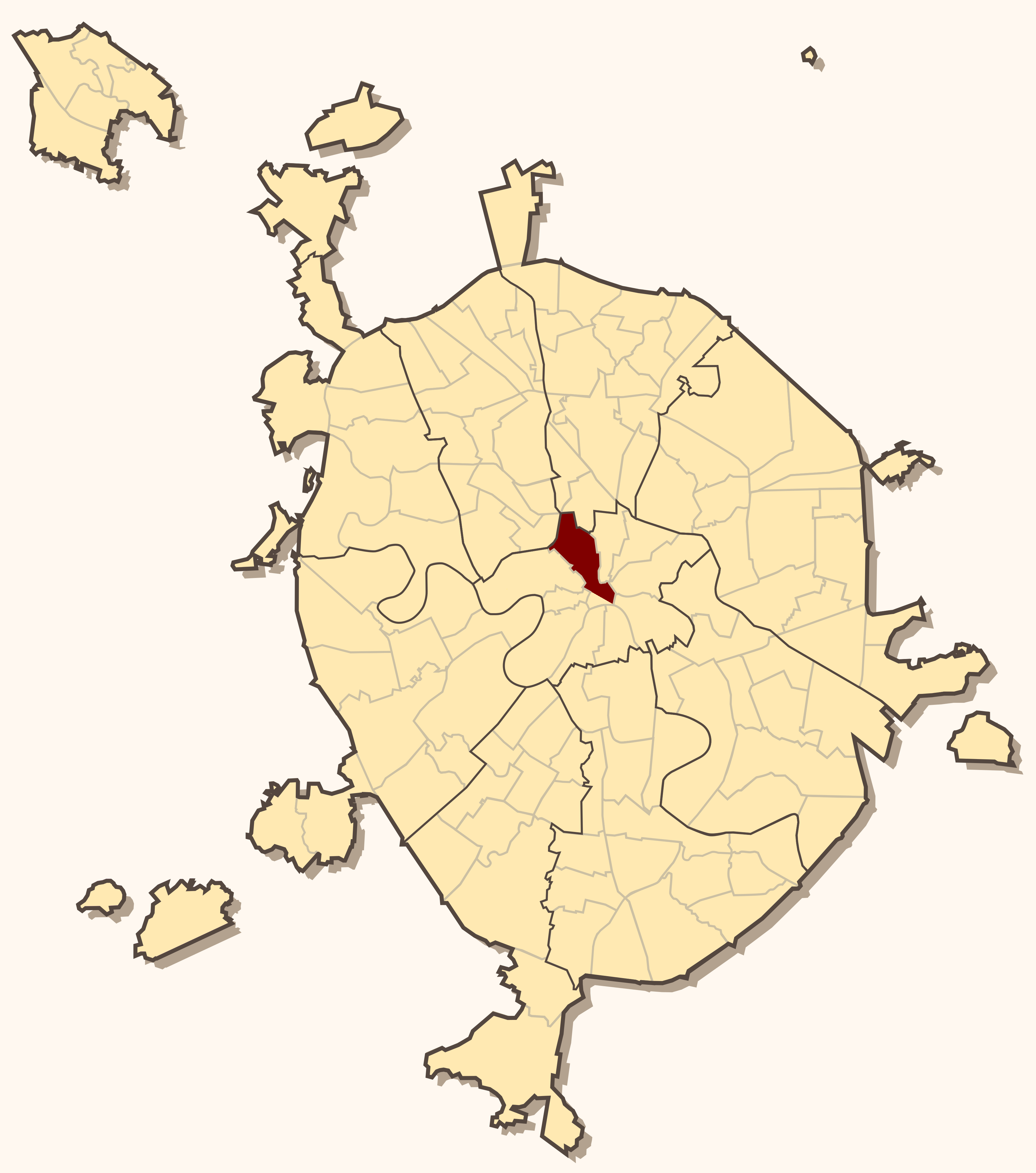 Map of Iverskoe Blagochinie of Moscow